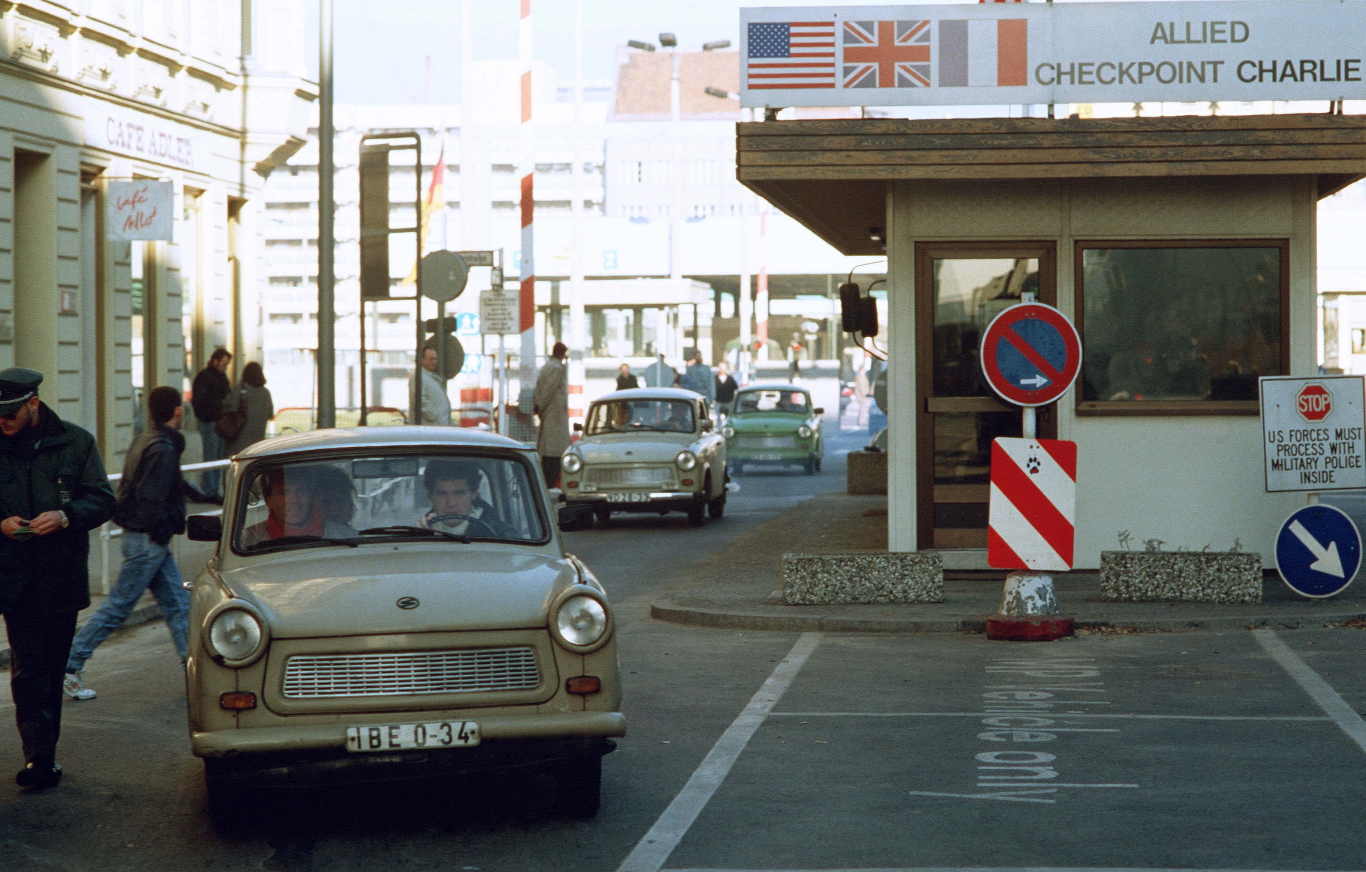 East Germans drive their vehicles through Checkpoint Charlie as they take advantage of relaxed travel restrictions to visit West Germany.